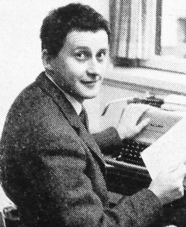 Swedish parliament member and minister of finance Kjell-Olof Feldt